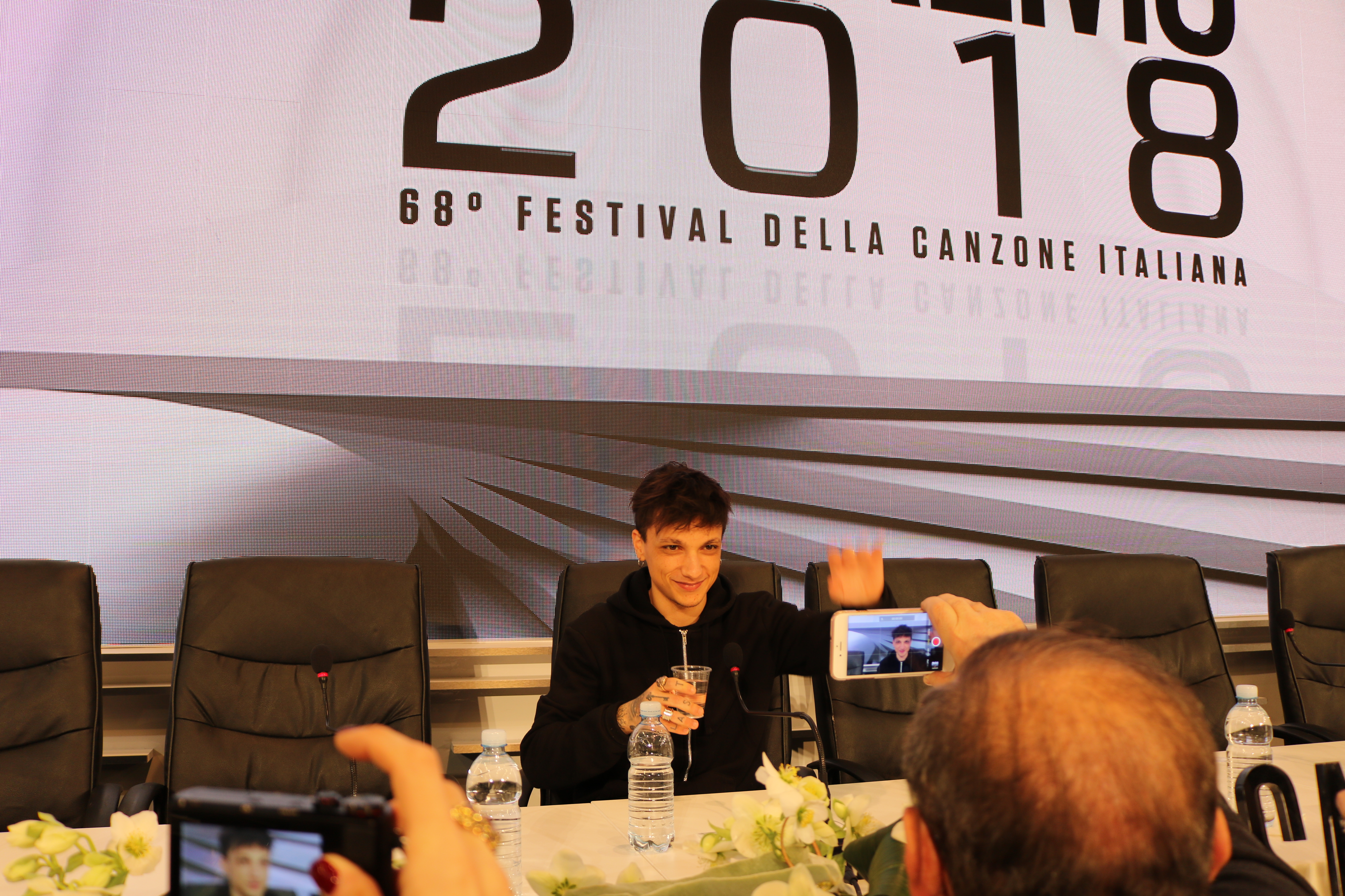 Ultimo